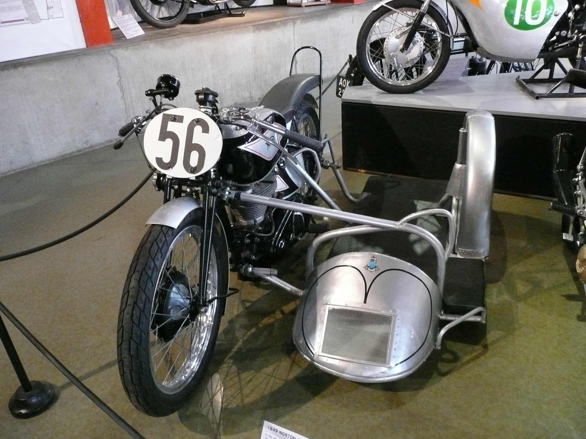 1949 Norton-Watsonian, National Motor Museum in Beaulieu.